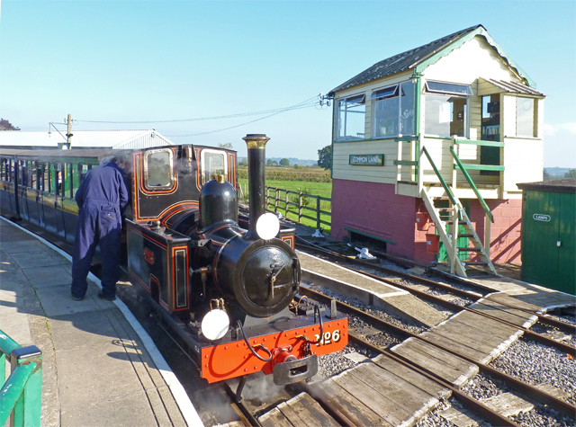 Gartell Light Railway